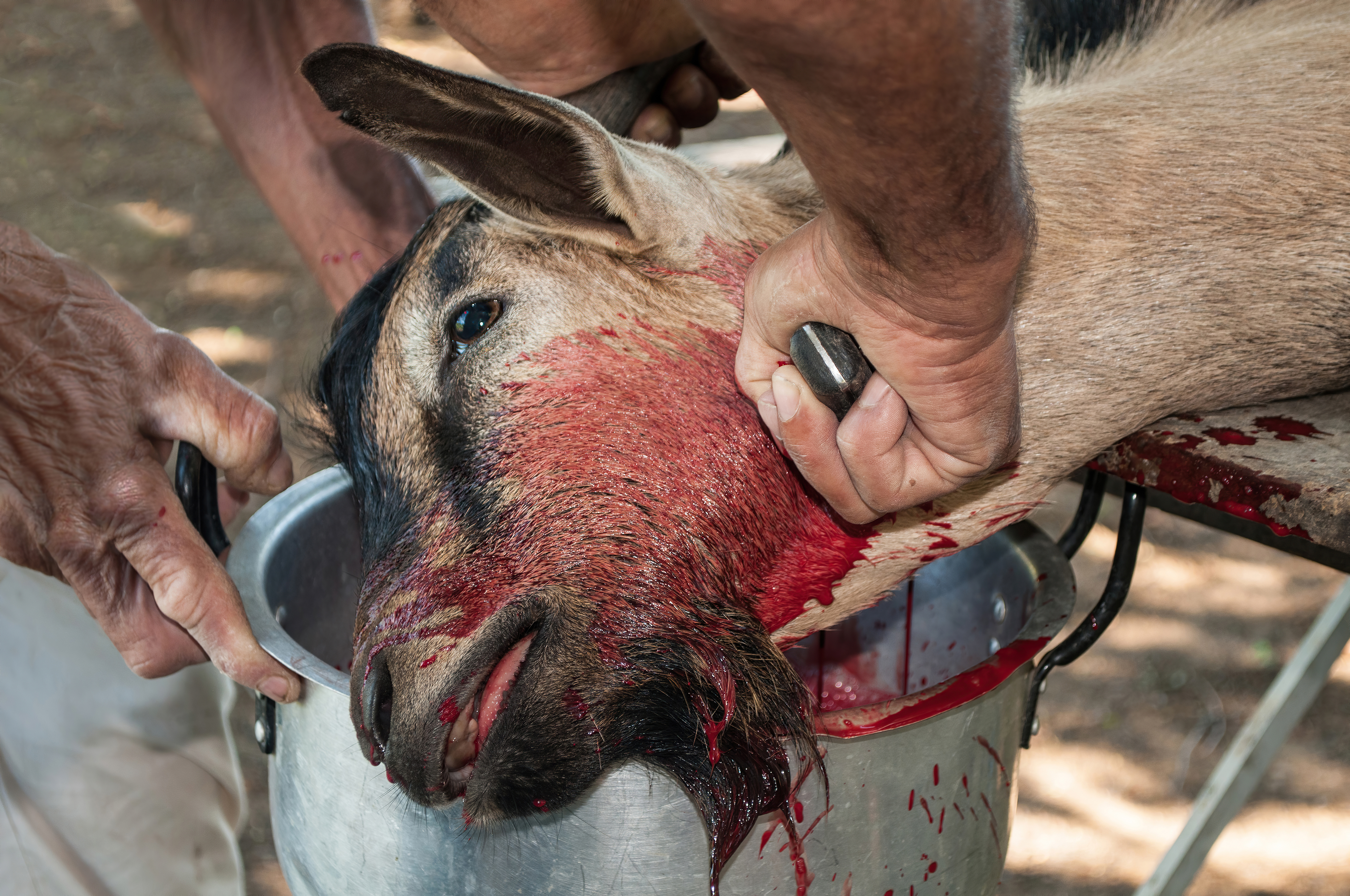 Goat for Christmas. Each end of the year for more than 100 years is celebrated goat for Christmas dinner in Margarita Island, Venezuela. The goat can be killed with a knife in the aorta to use their blood. Later is flayed for using their skin. The first thing that is done to kill is fresh consumption of his testicles, penis and blood that are boiled for 2 min with wild oregano leaves from the same area. In this case, this goat was prepared by residents of Las Guevaras in Margarita Island, Venezuela. This activity has been eroding due to the gradual decrease of rearing goats